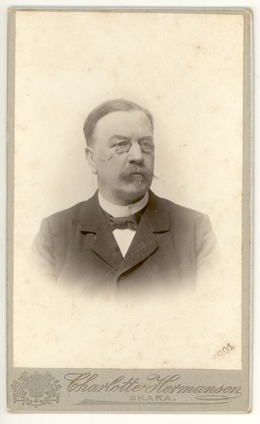 Lars Wilhelm Kylberg (1840-1928), Swedish industrialist.